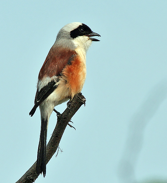 Bay-backed Shrike (Lanius vittatus) at Sultanpur National Park in Gurgaon District of Haryana, India.